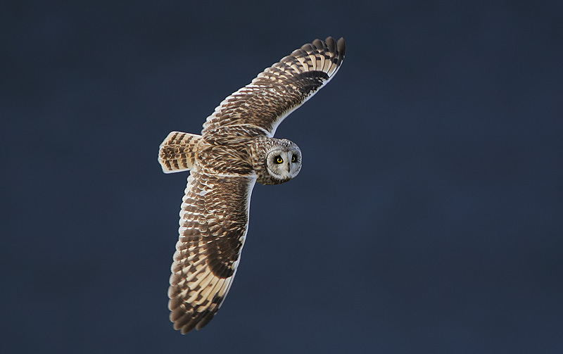 This hunting bird was picked out by the low light of the setting sun against the dark backdrop of a nearby loch further down the hilside. Image taken in the hills above Glen Devon, Breadalbane, Scotland.